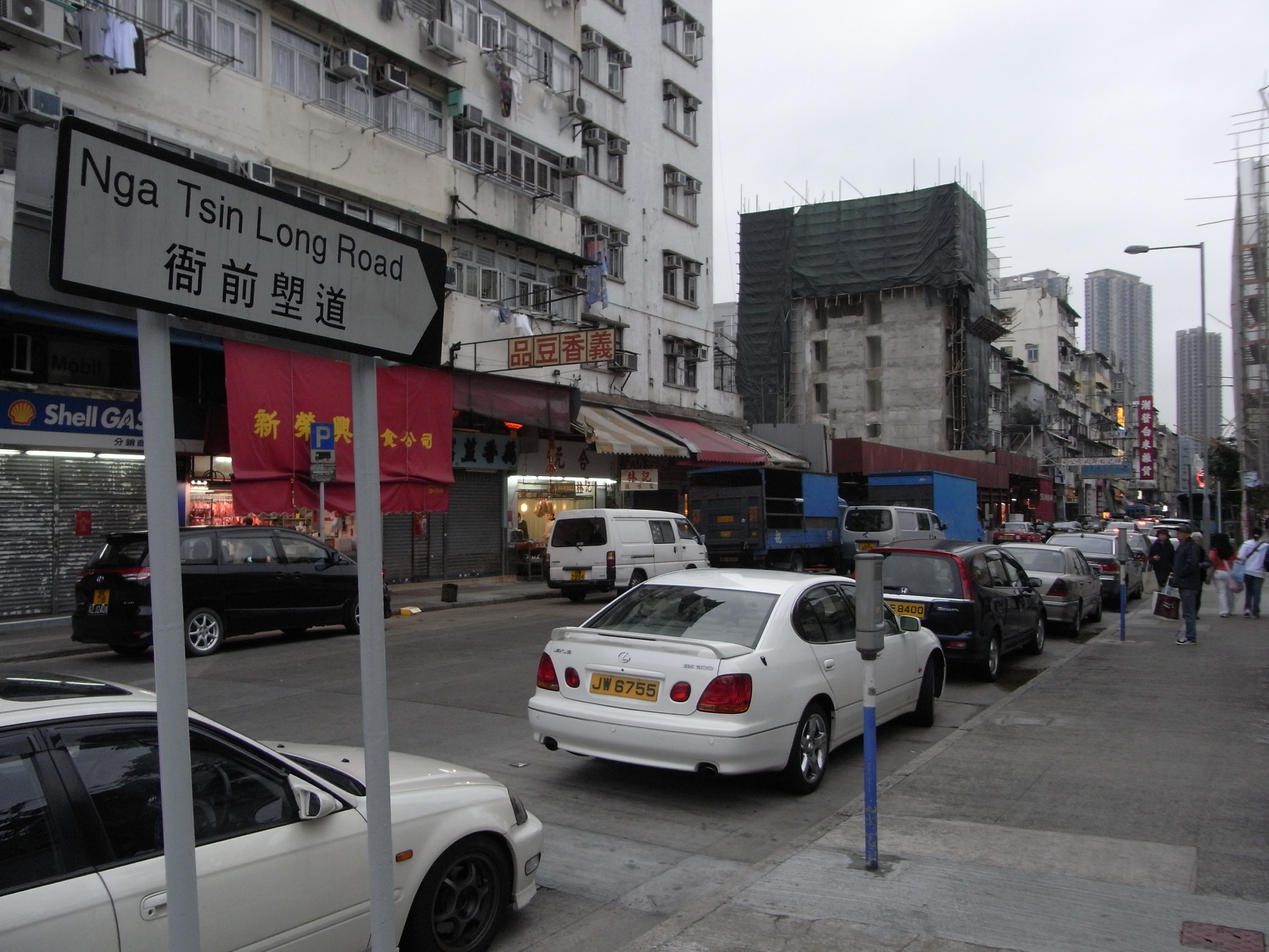 九龍城